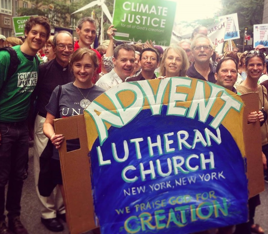 Metropolitan New York Synod participates in Climate March